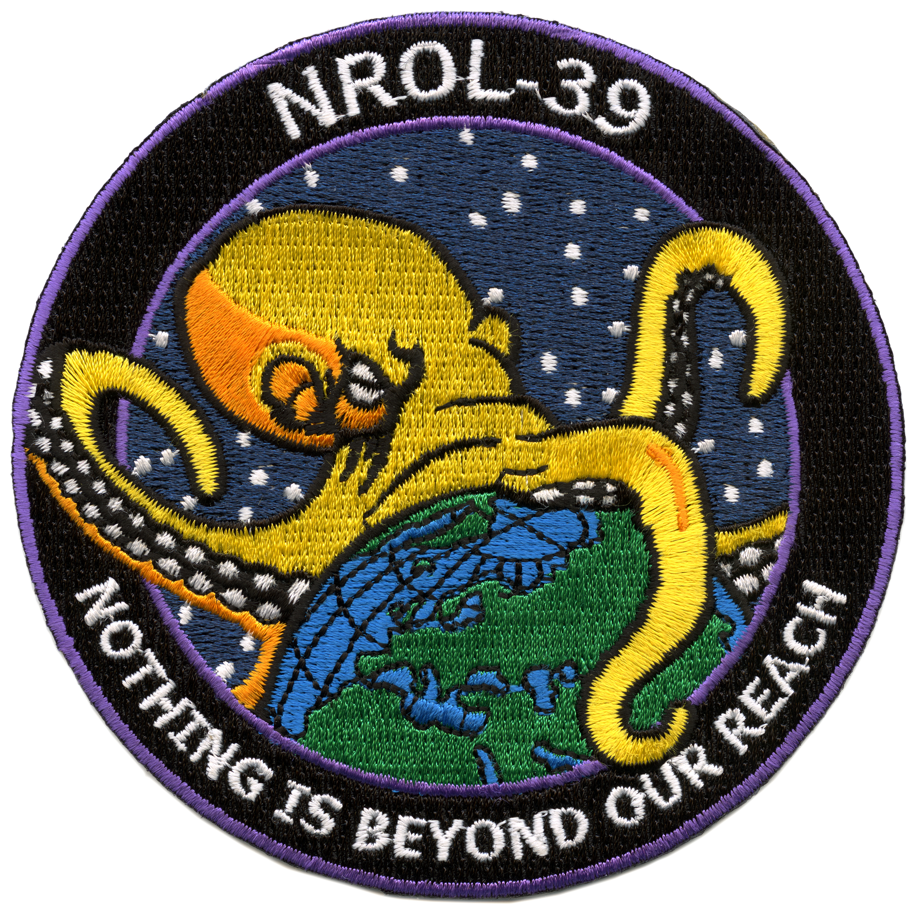 Mission "patch" of NROL-39: an octopus grabbing the earth's globe, labeled "Nothing is beyond our reach".